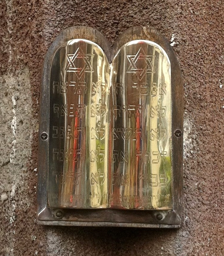 Karaite Mezuza in Ramla